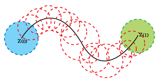 An illustration of 解析接続（Analytic continuation）